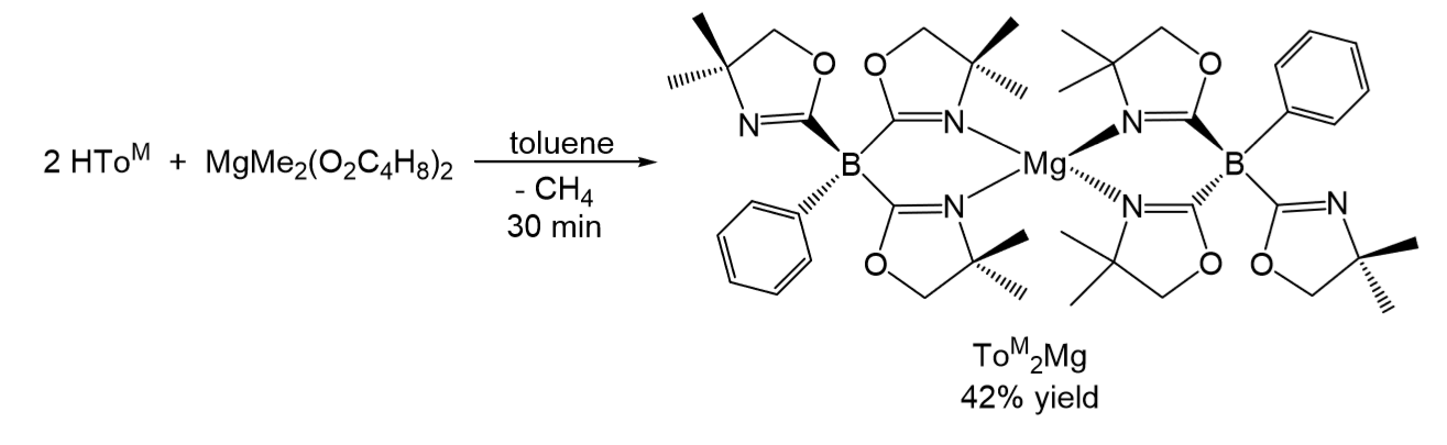 Preparation of ToM2Mg